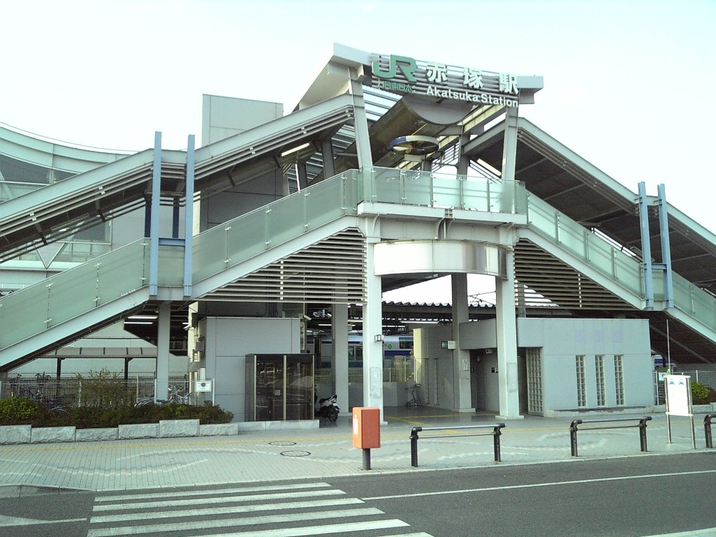 JR East Akatsuka station, South entrance.